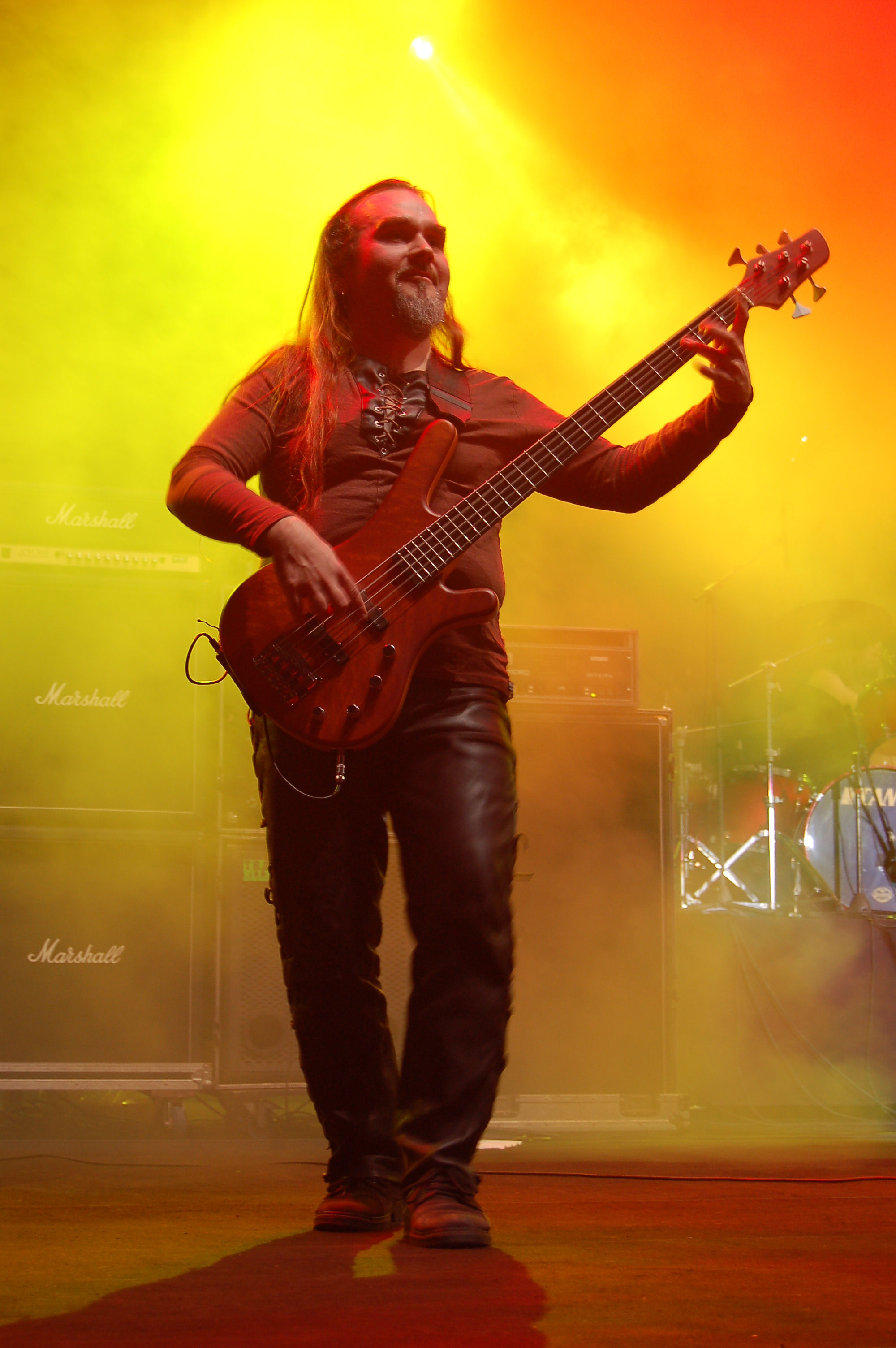 Jarkko Aaltonen from Korpiklaani during Metalmania 2007 festival